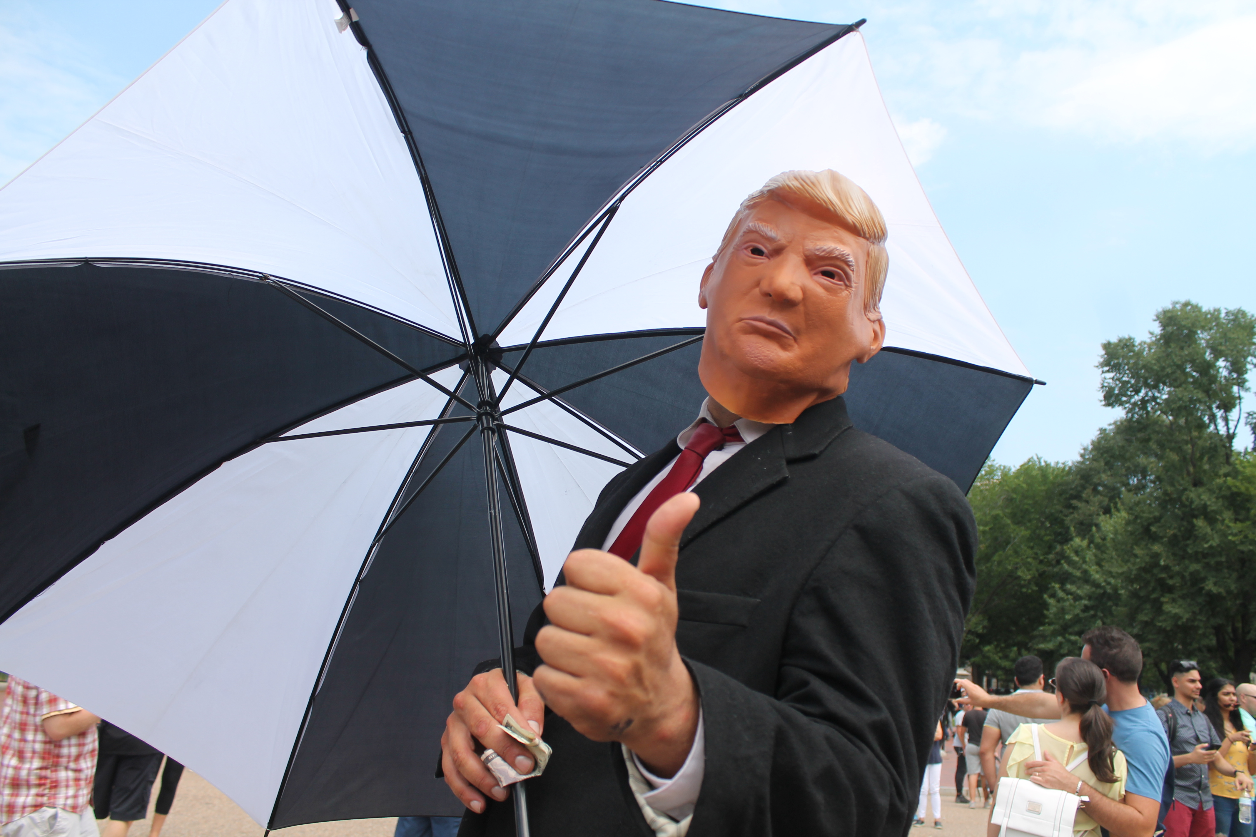 In front of the White House at 1600 Pennsylvania Avenue, NW, Washington DC on Saturday afternoon, 11 August 2018 by Elvert Barnes Photography LONE DEMONSTRATOR protesting against and dressed in costume as Trump Trip to Washington DC for Day Before Unite The Right 2 Rally / March